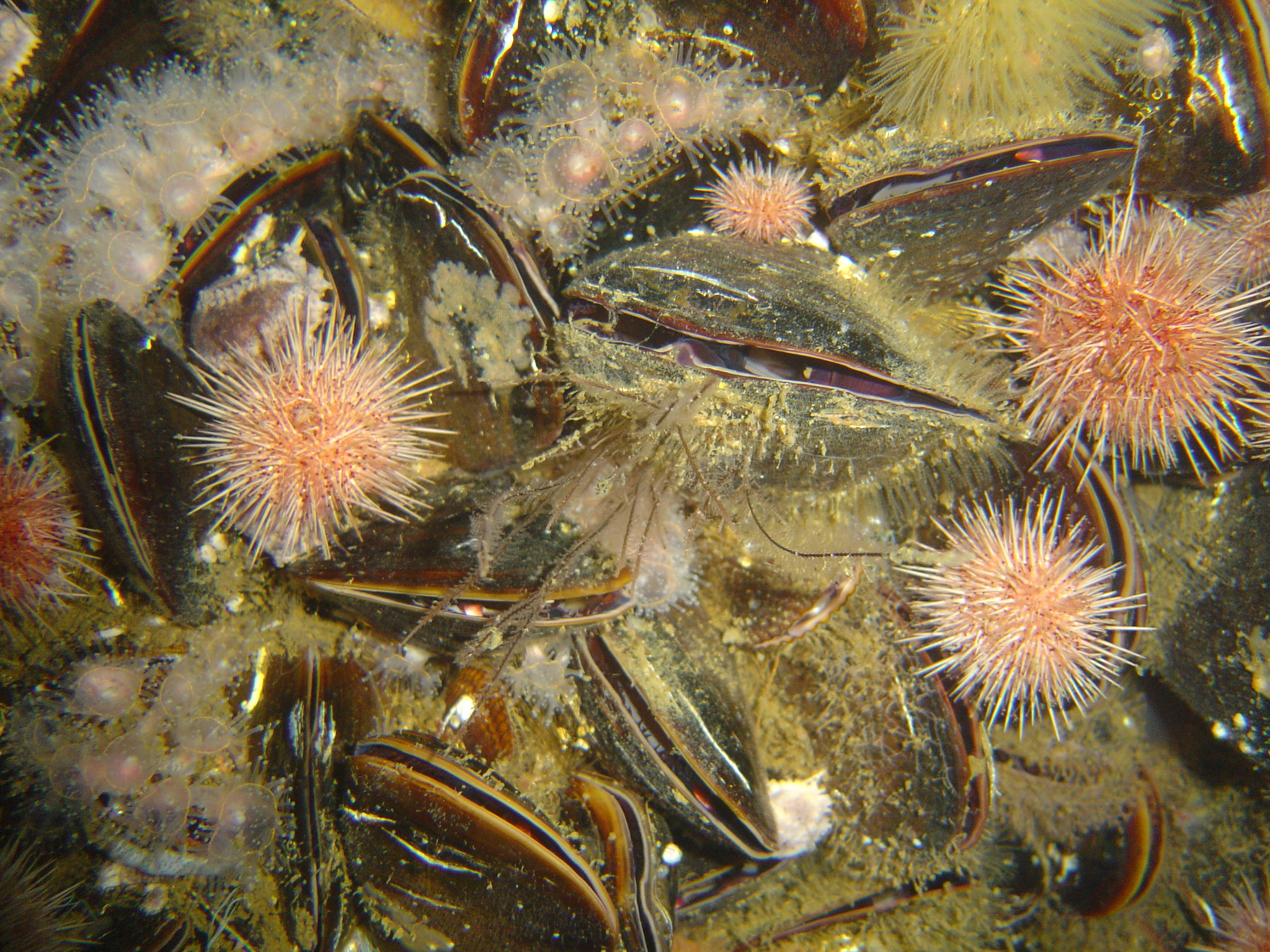 The Fleur is largely encrusted with mussel, urchins and strawberry anemones. Wreck of SAS Fleur, False Bay, Western Cape.